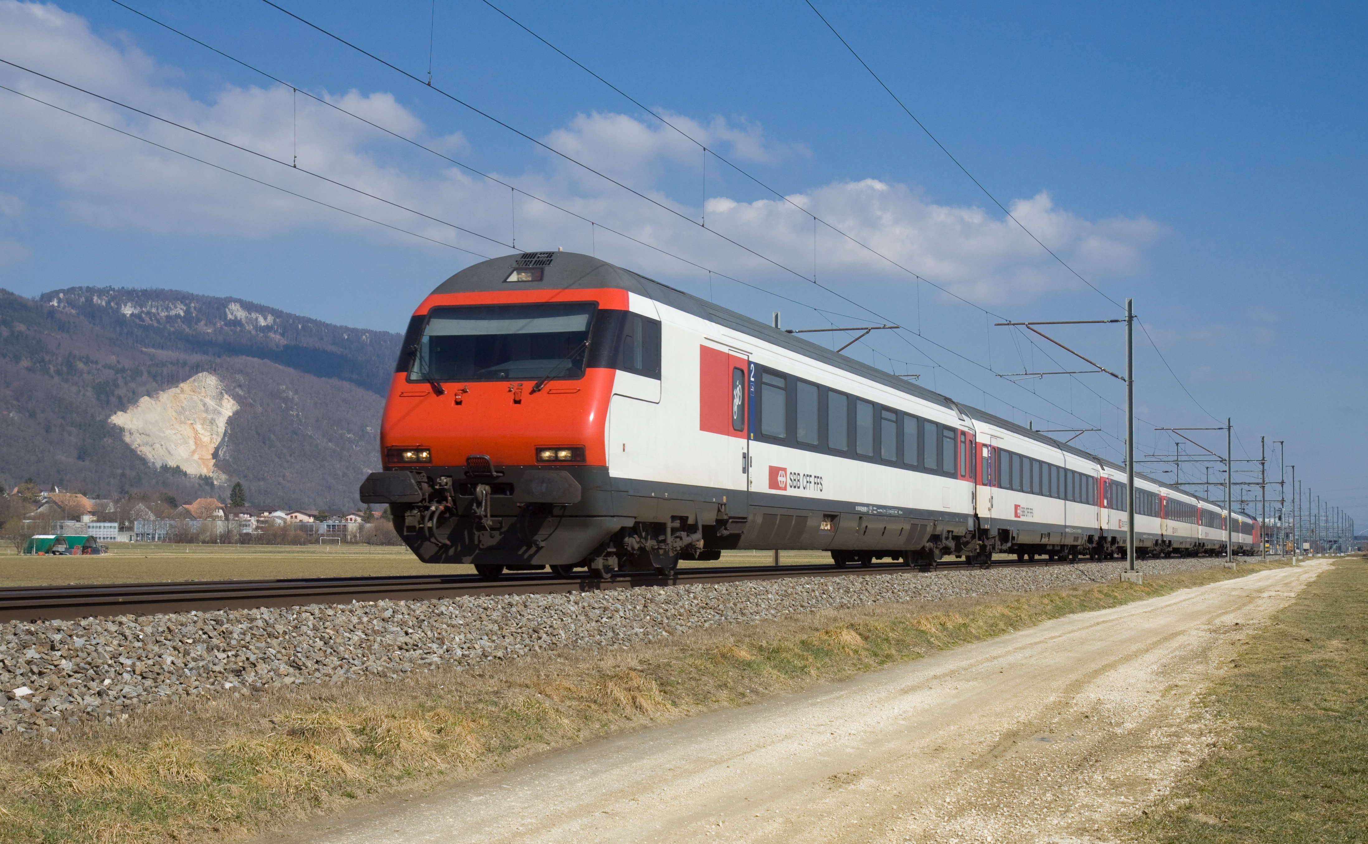 SBB-CFF-FFS IC Bt control car leading a Konstanz - Biel Interregio service near Oberbuchsiten, Switzerland. A Re 460 locomotive is pushing at the rear.